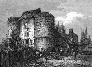 Bungay Castle gatehouse in 1819